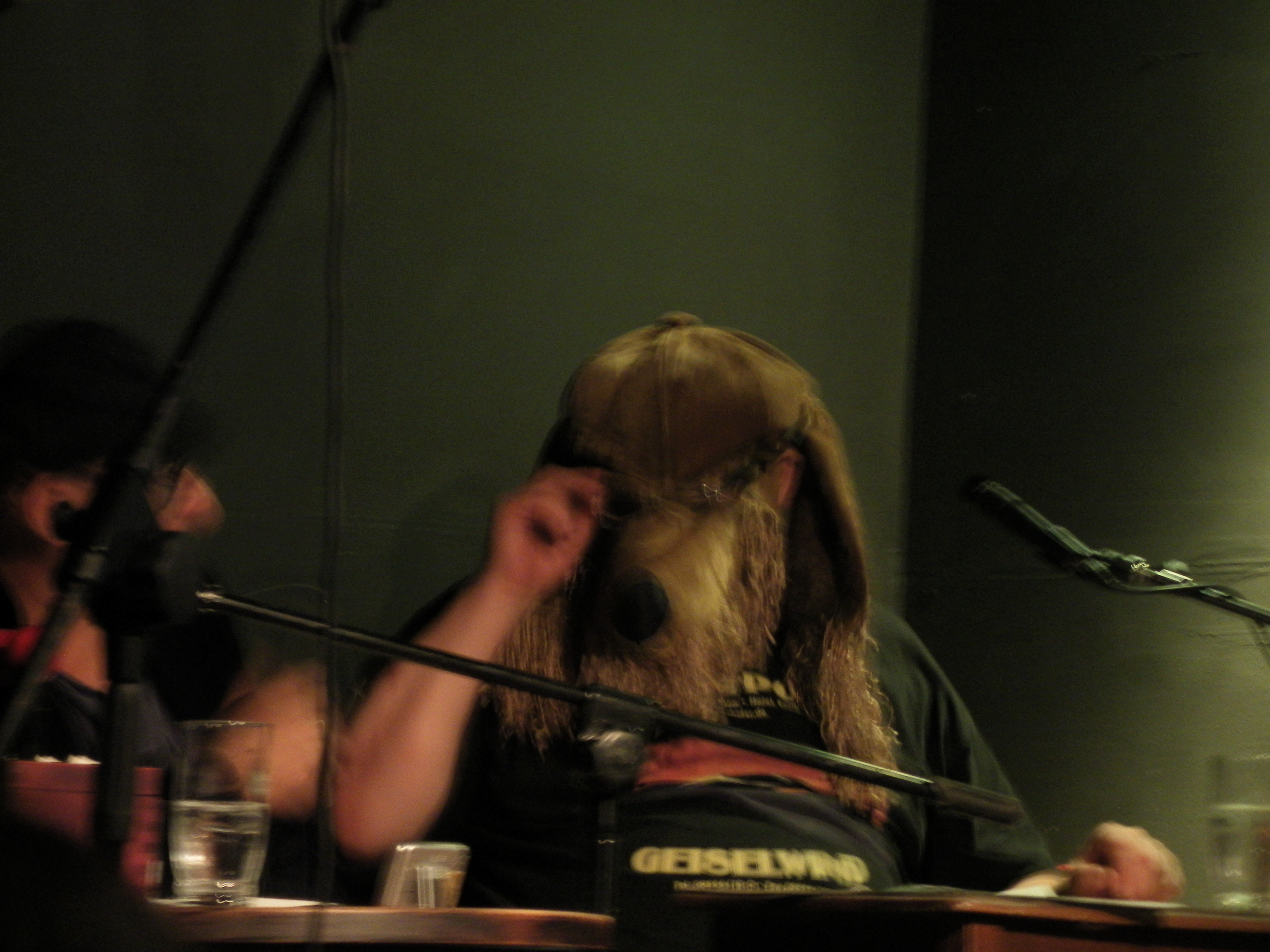 Piotr Bikont with a dog's mask on.